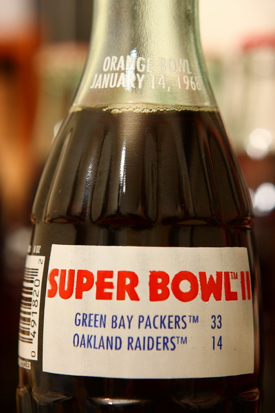 An NFL Coke bottle produced in 1994 as part of the "Super Bowl Series", with this one commemorating Super Bowl II Info at (Ctrl+F "Super Bowl II" - about one-fifth of the way down the page)